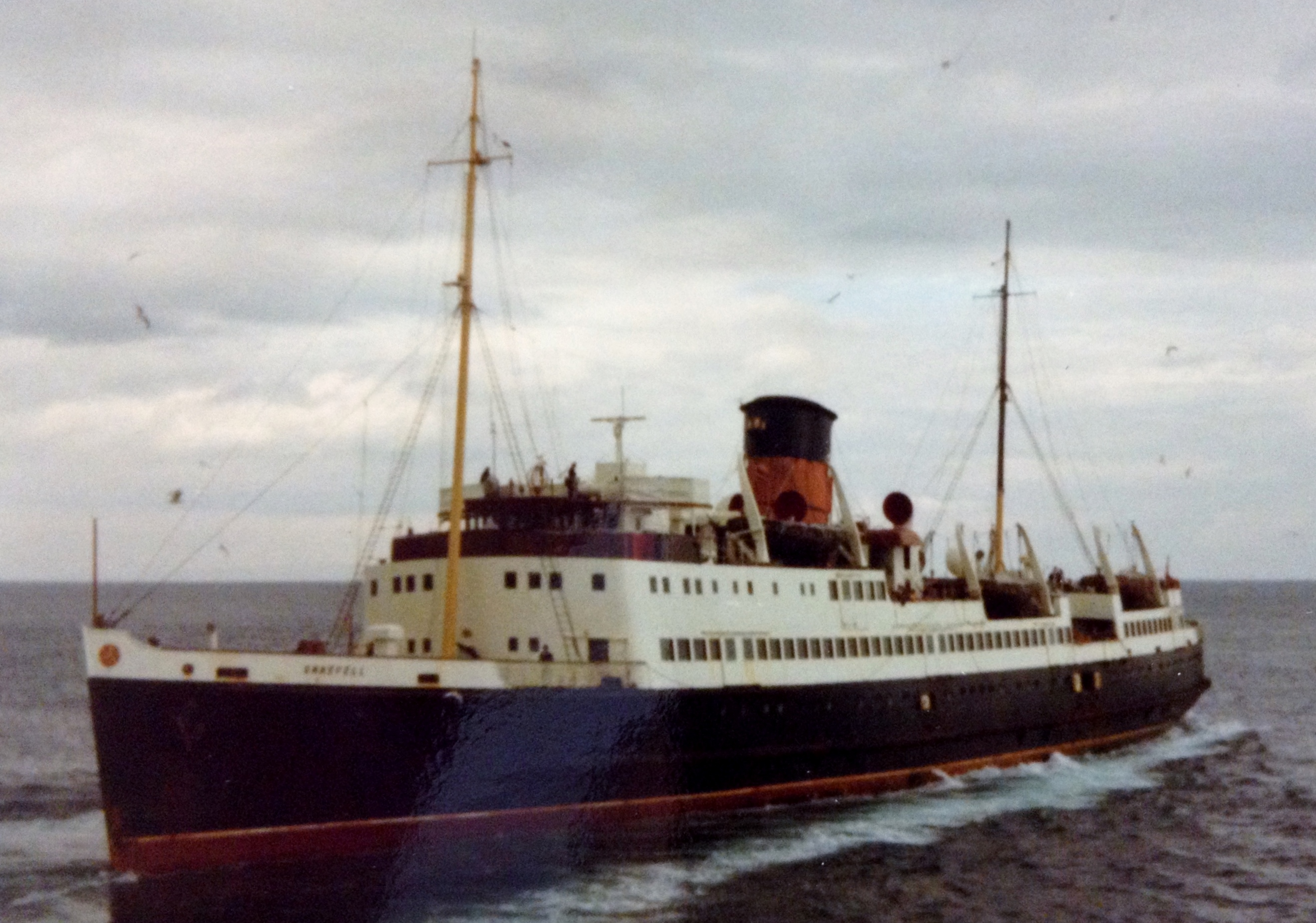 SS Sneafell pictured leaving Douglas.